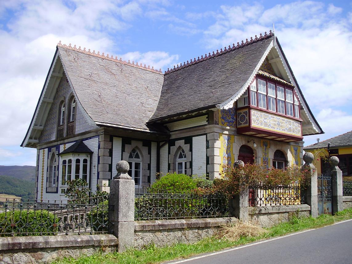 One of the most representative examples in Boal of the big houses built by those who had made good in America at the beginning of the 20th century.